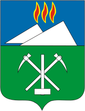 Slantsevo (Leningrad oblast), coat of arms